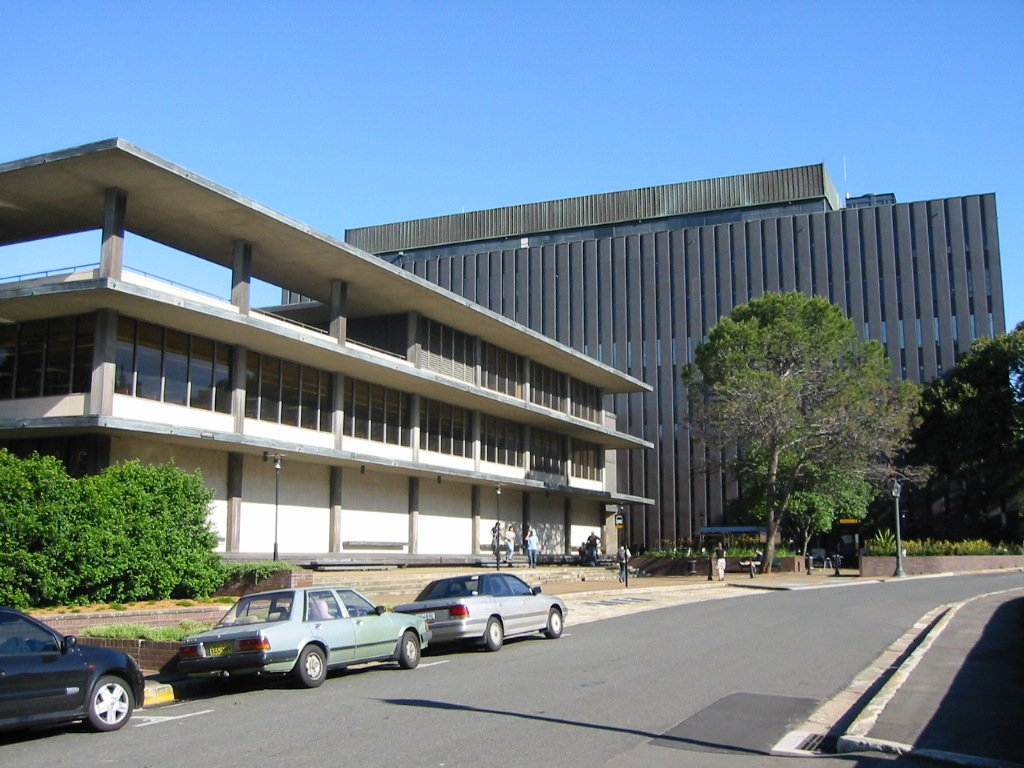 Fisher Library. Photo taken by me (James Foster).